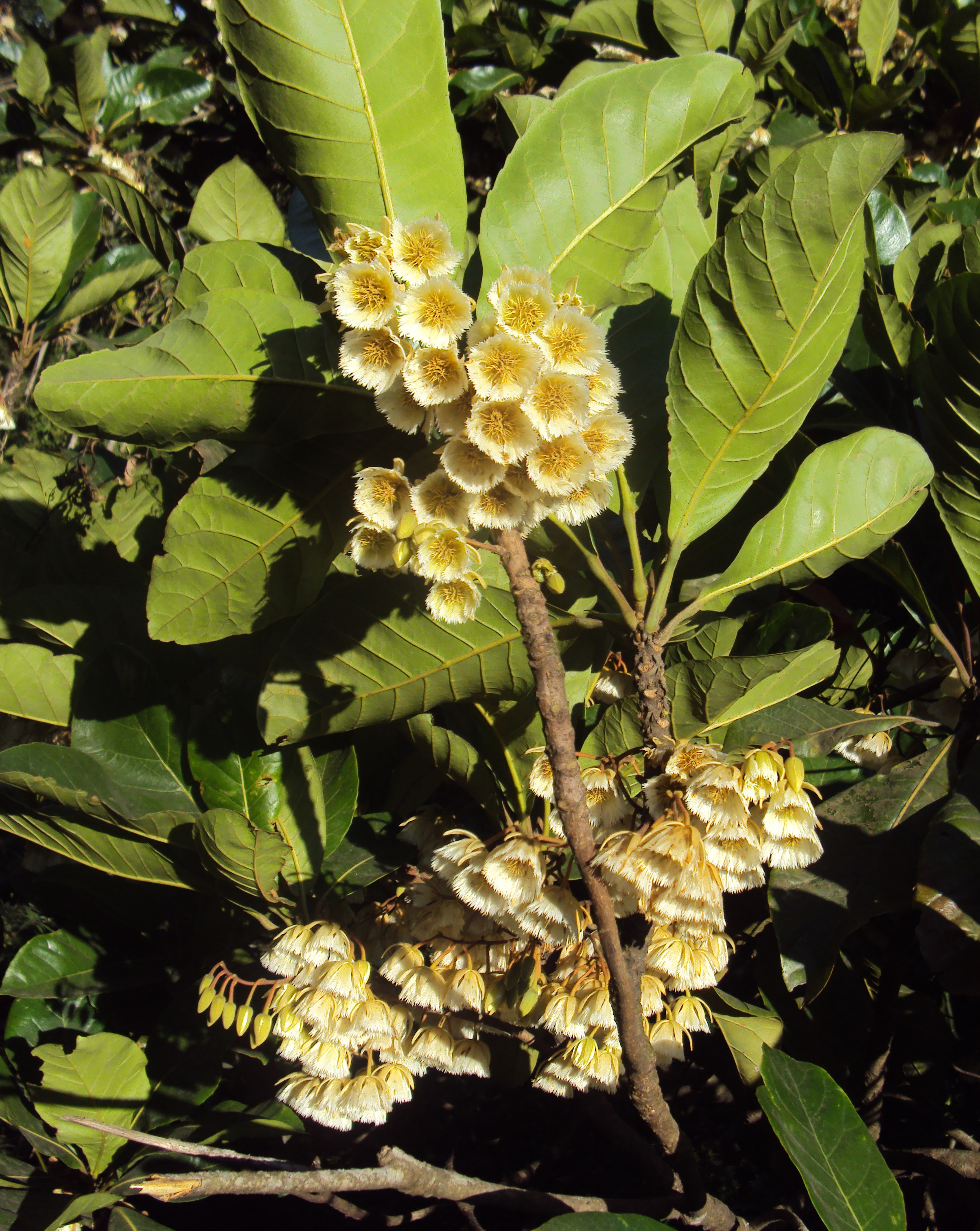 Elaeocarpus tuberculatus